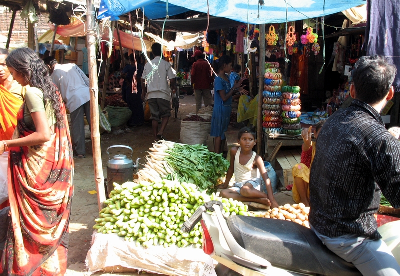 Village Bazaar, Bihar